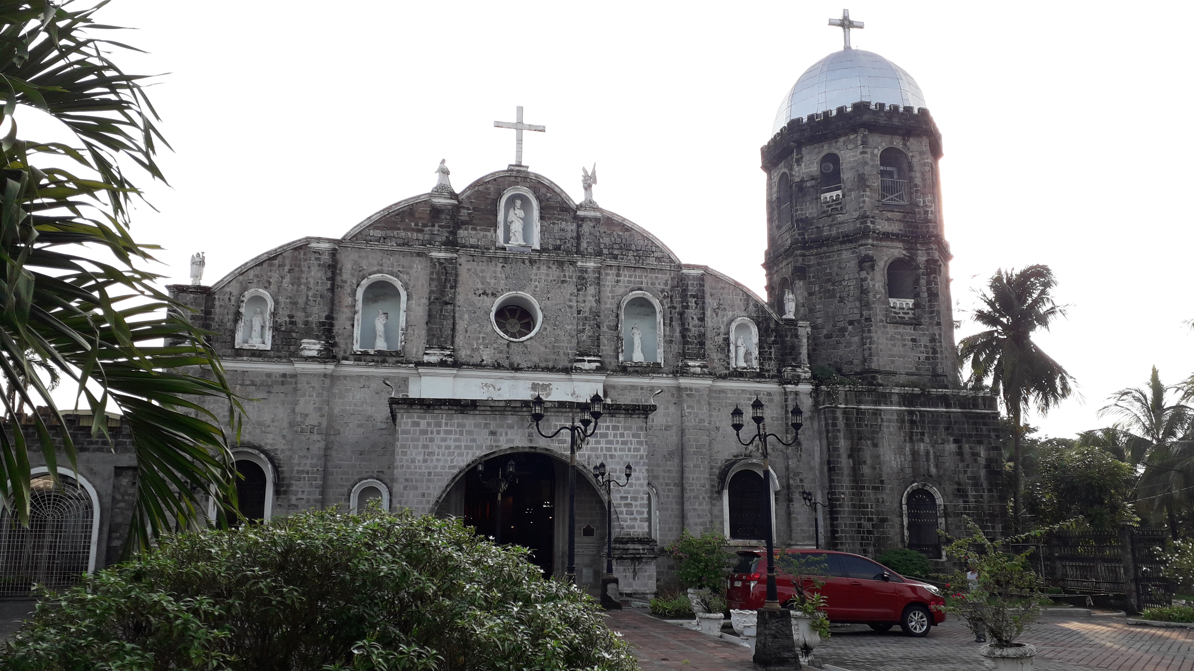 Facade of San Bartolome Church